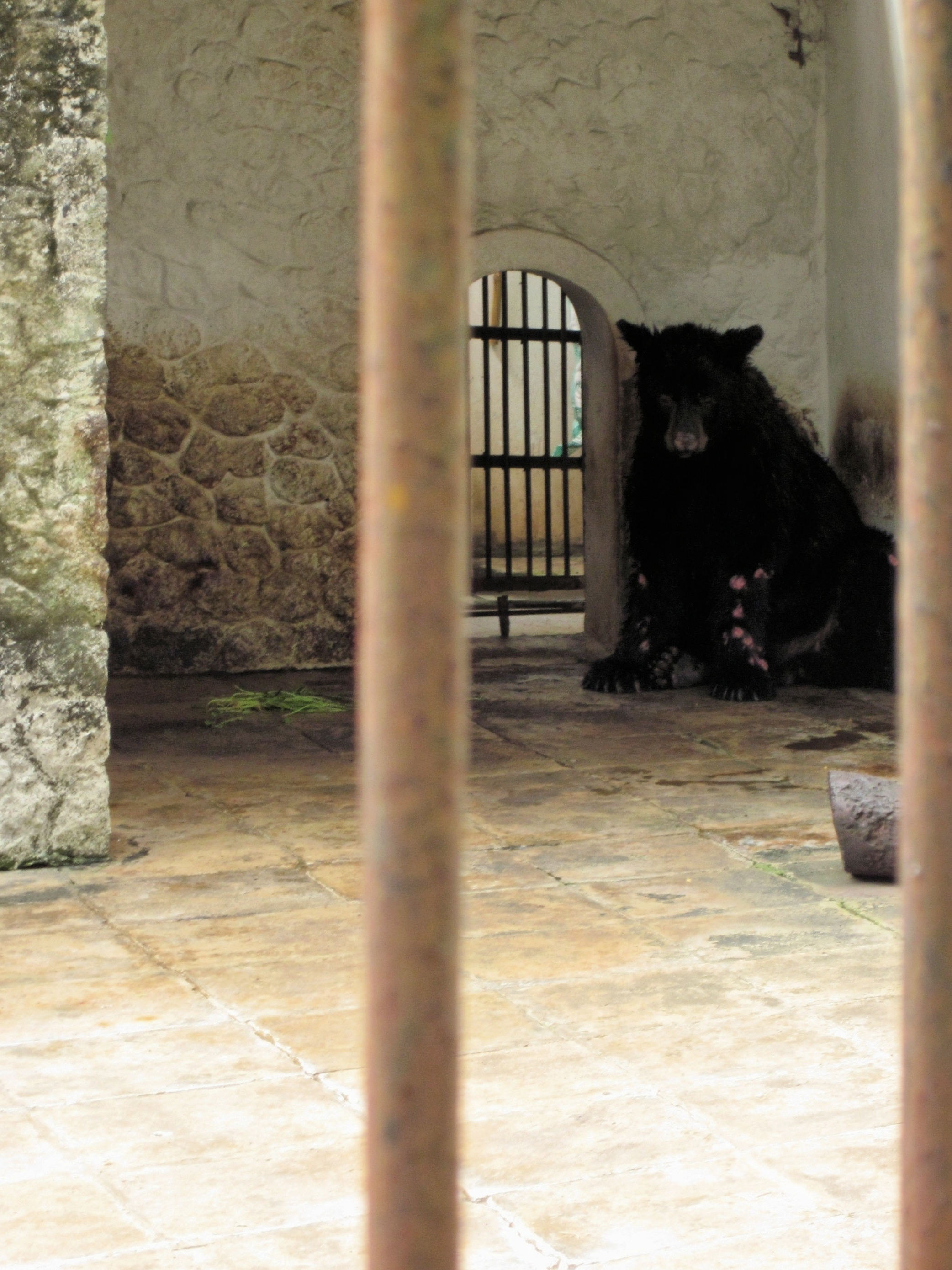 The American Black Bear in the Surabaya (Indonesia) Zoo is mistreated and malnourished, suffering from skin disease common among captive bears not properly cared for.